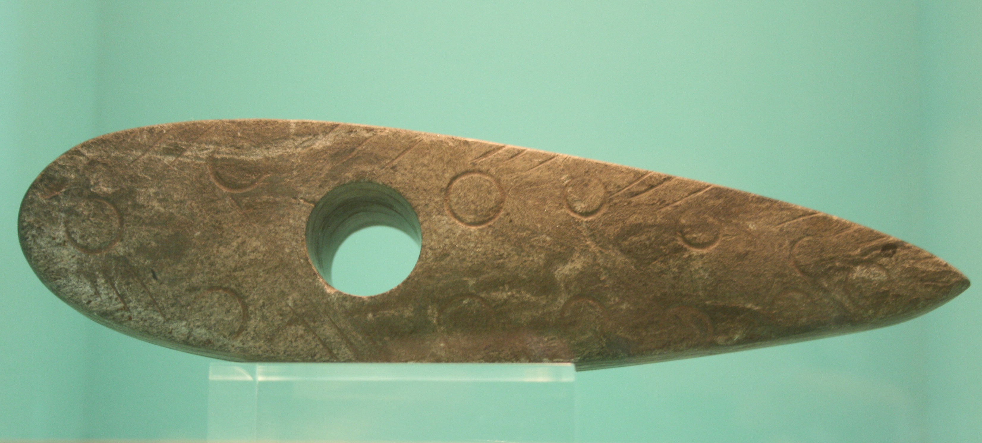 Museum für Vor- und Frühgeschichte (Museum of prehistory and early history), Berlin